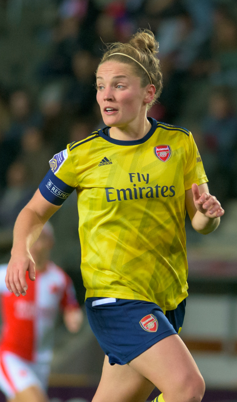 Kim Little during the match vs Slavia Praha (women), October 2019